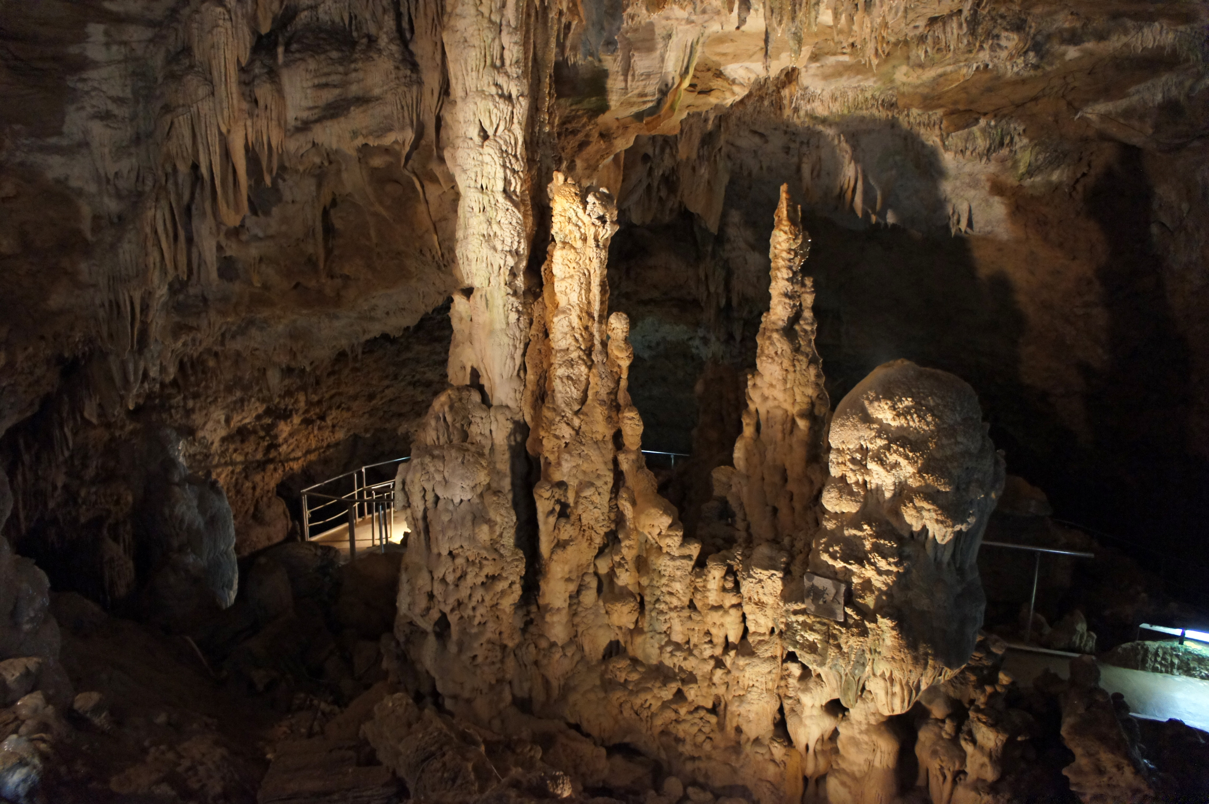 Ishigakijima-shonyudo ( Ishigakijima Limestone Cave ) of Ishigaki Island in Ishigaki City, Okinawa Prefecture, Japan. It is one of the Japan's Places of Scenic Beauty.